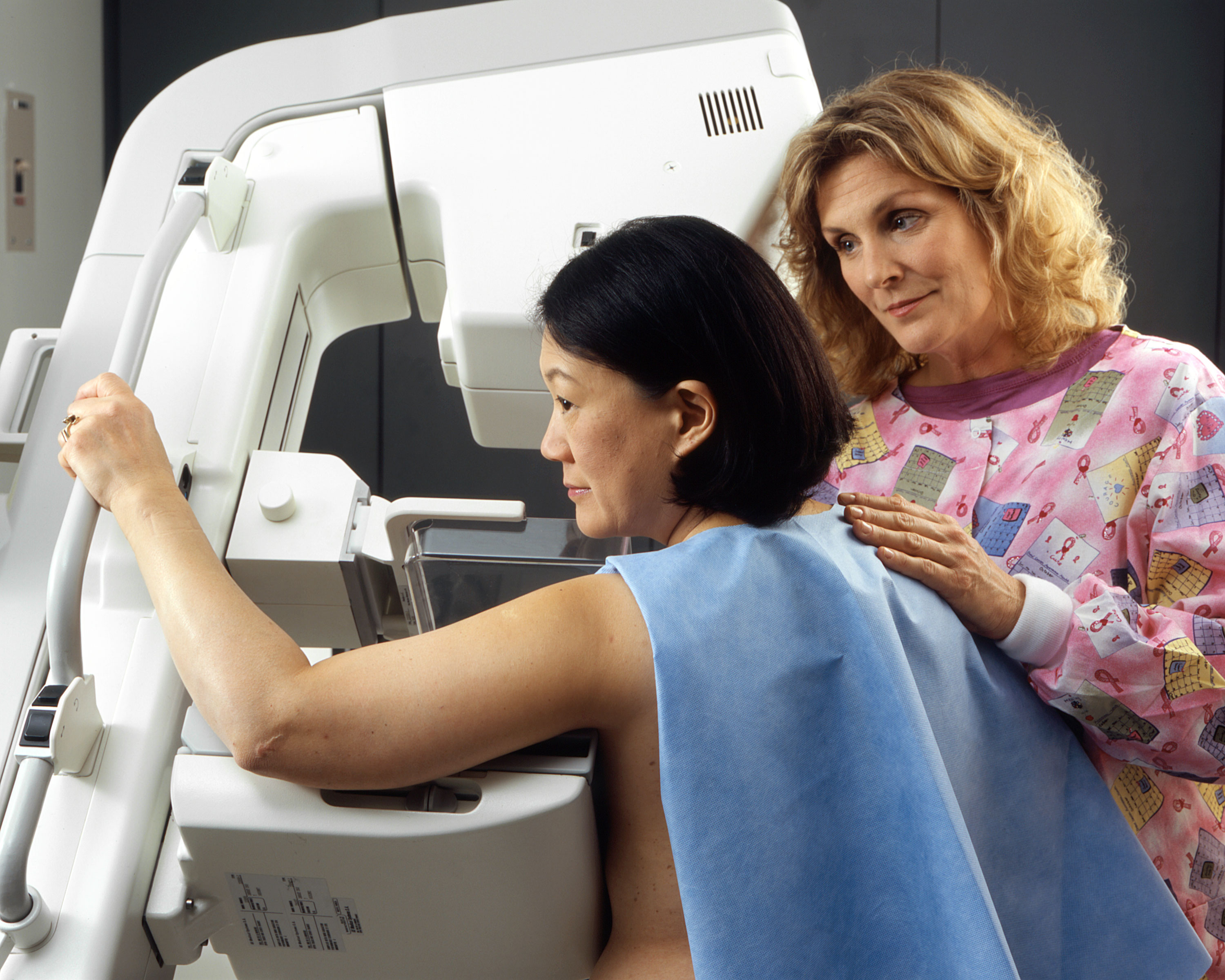 Title Woman Receives Mammogram Description A Caucasian female technician positions an Asian woman at an imaging machine to receive a mammogram. Topics/Categories Locations -- Clinic/Hospital People -- Health Professional and Patient Test or Procedure -- Imaging Procedures Type Color, Photo Source National Cancer Institute